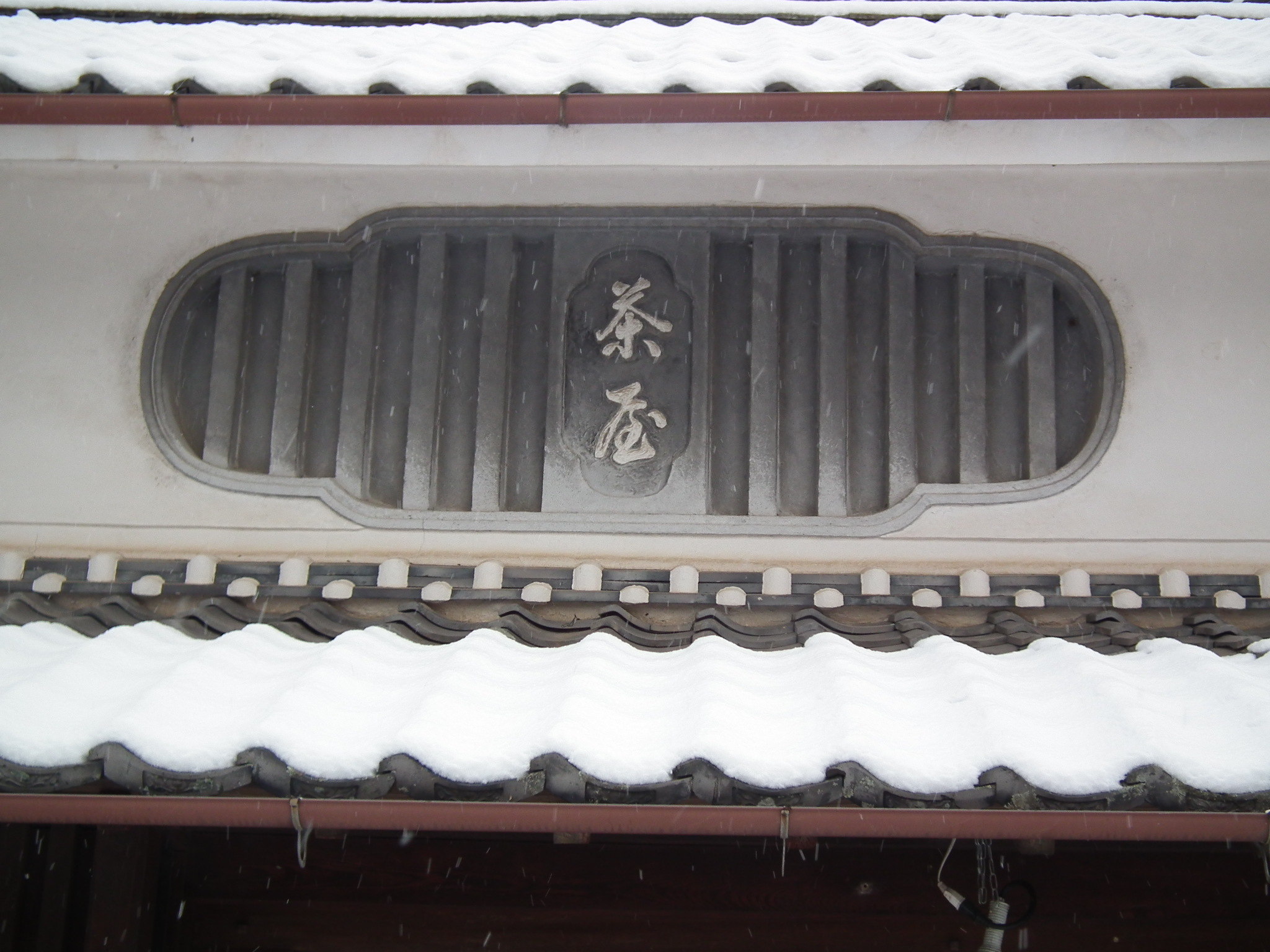 Jubei-chaya